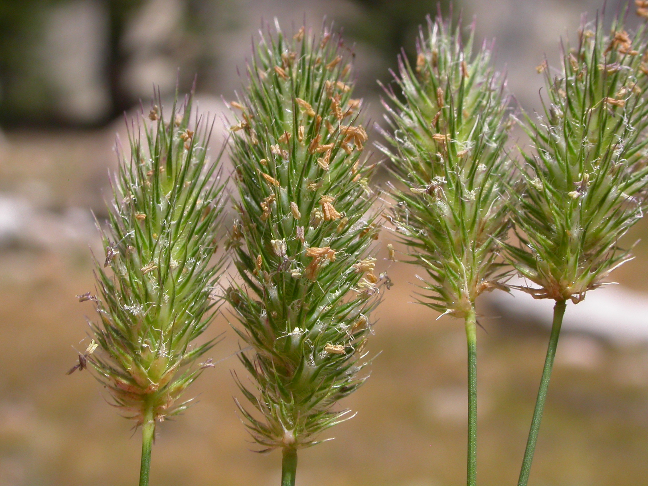 The ovoid spikes are diagnostic of this species. The short stout awns from the glumes are characteristic of the genus Phleum.